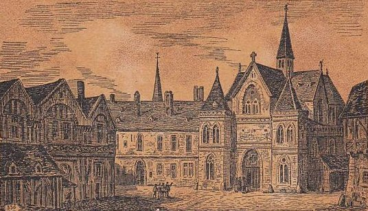 Sorbonne college, Paris, as in 1530